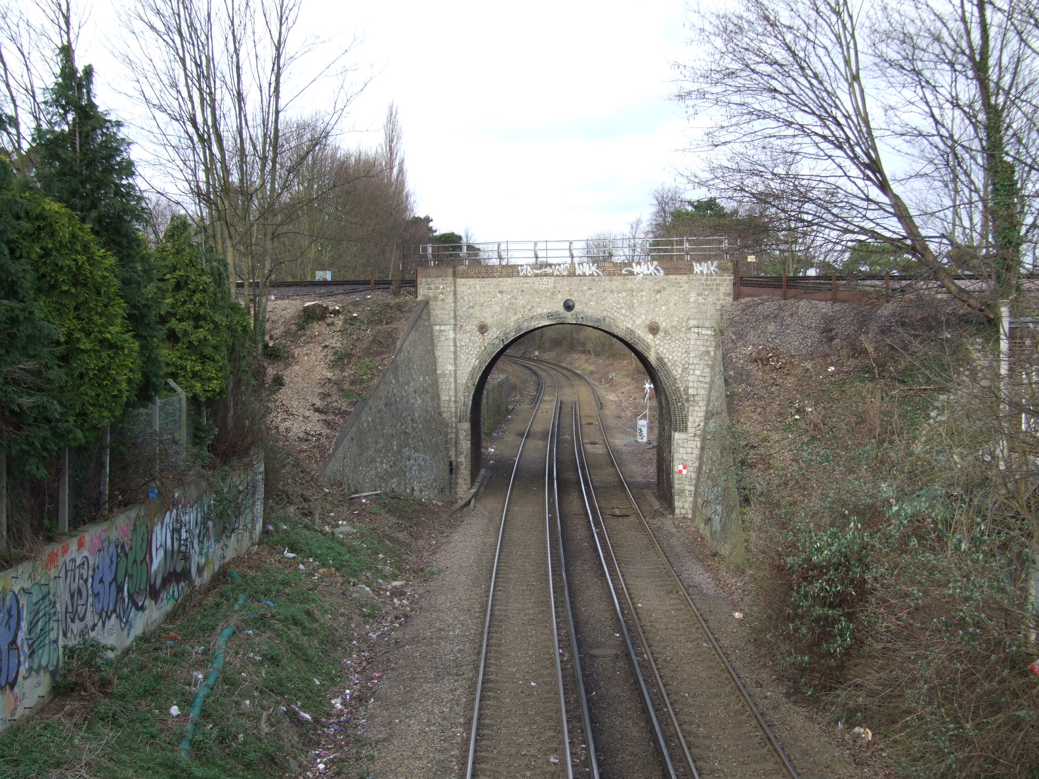 Medway Valley Line from Buckland Hill, Maidstone. This is crossed by the Maidstone East Line.